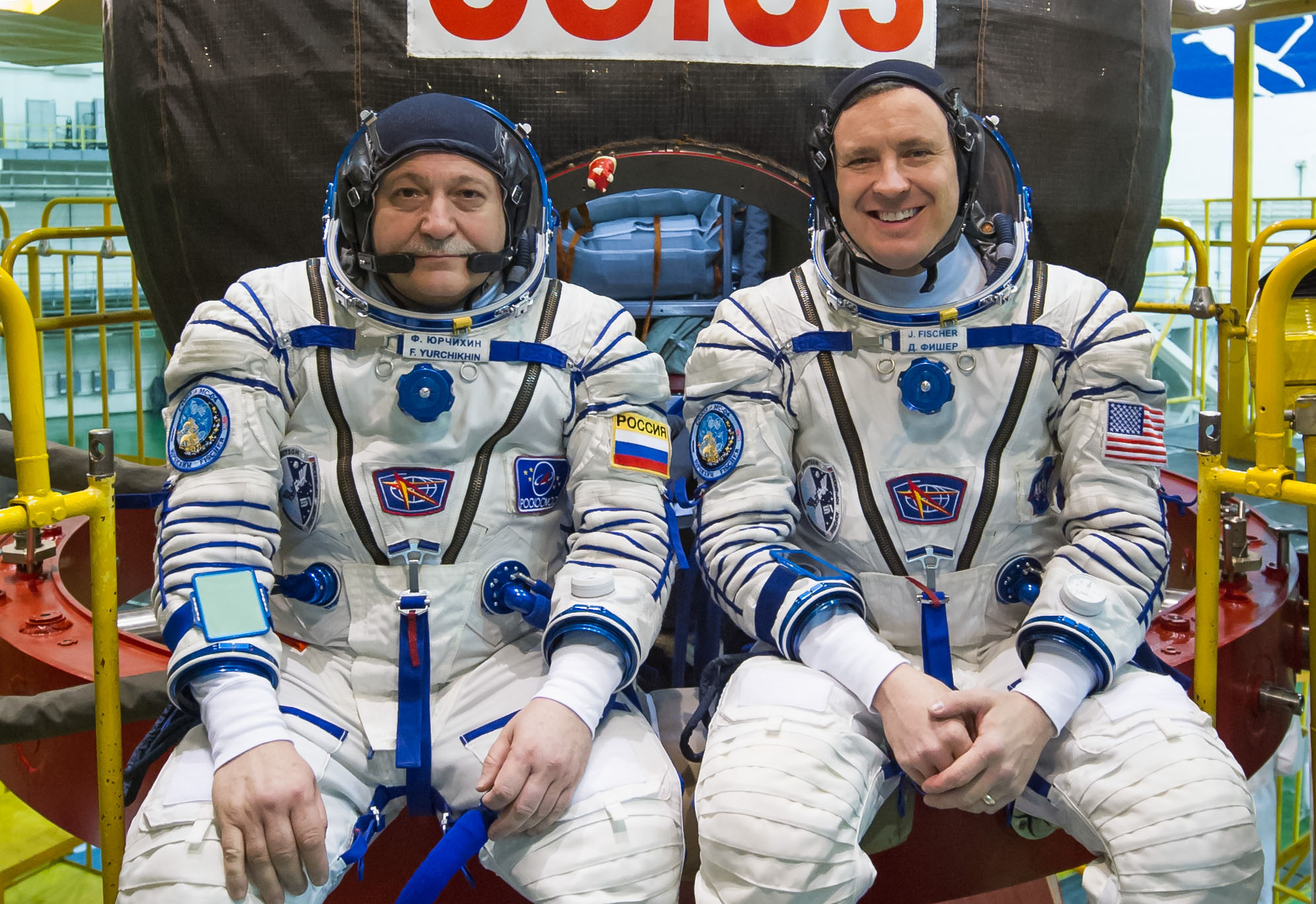 In the Integration Building at the Baikonur Cosmodrome in Kazakhstan, Expedition 51 crewmembers Fyodor Yurchikhin of the Russian Federal Space Agency (Roscosmos, left) and Jack Fischer of NASA (right) pose for pictures April 6 in front of their Soyuz MS-04 spacecraft as part of pre-launch training preparations. Fischer and Yurchikhin will launch April 20 on the Soyuz MS-04 spacecraft for a four and a half month mission on the International Space Station.